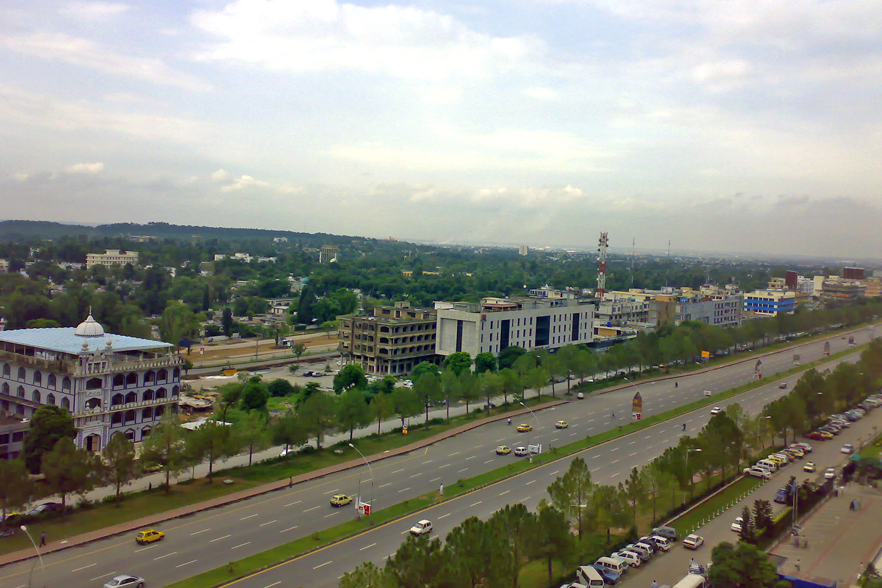 Jinnah Avenue in Islamabad, Pakistan.